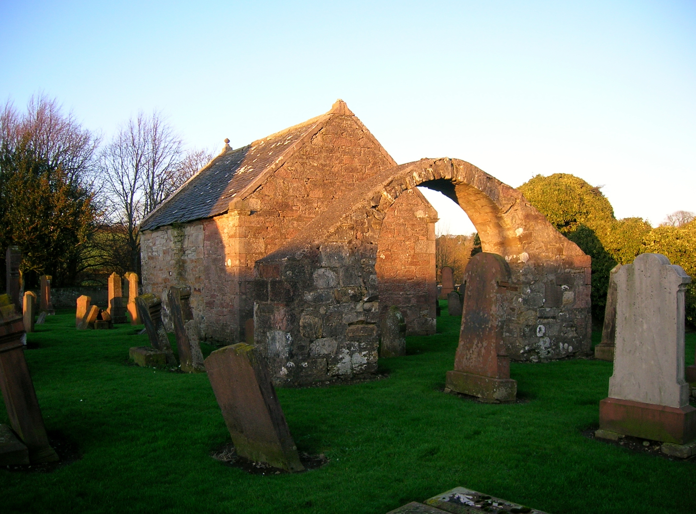 Hamilton Aisle and archway, Coylton old parish church and cemetery, Low Coylton, East Ayrshire, Scotland.